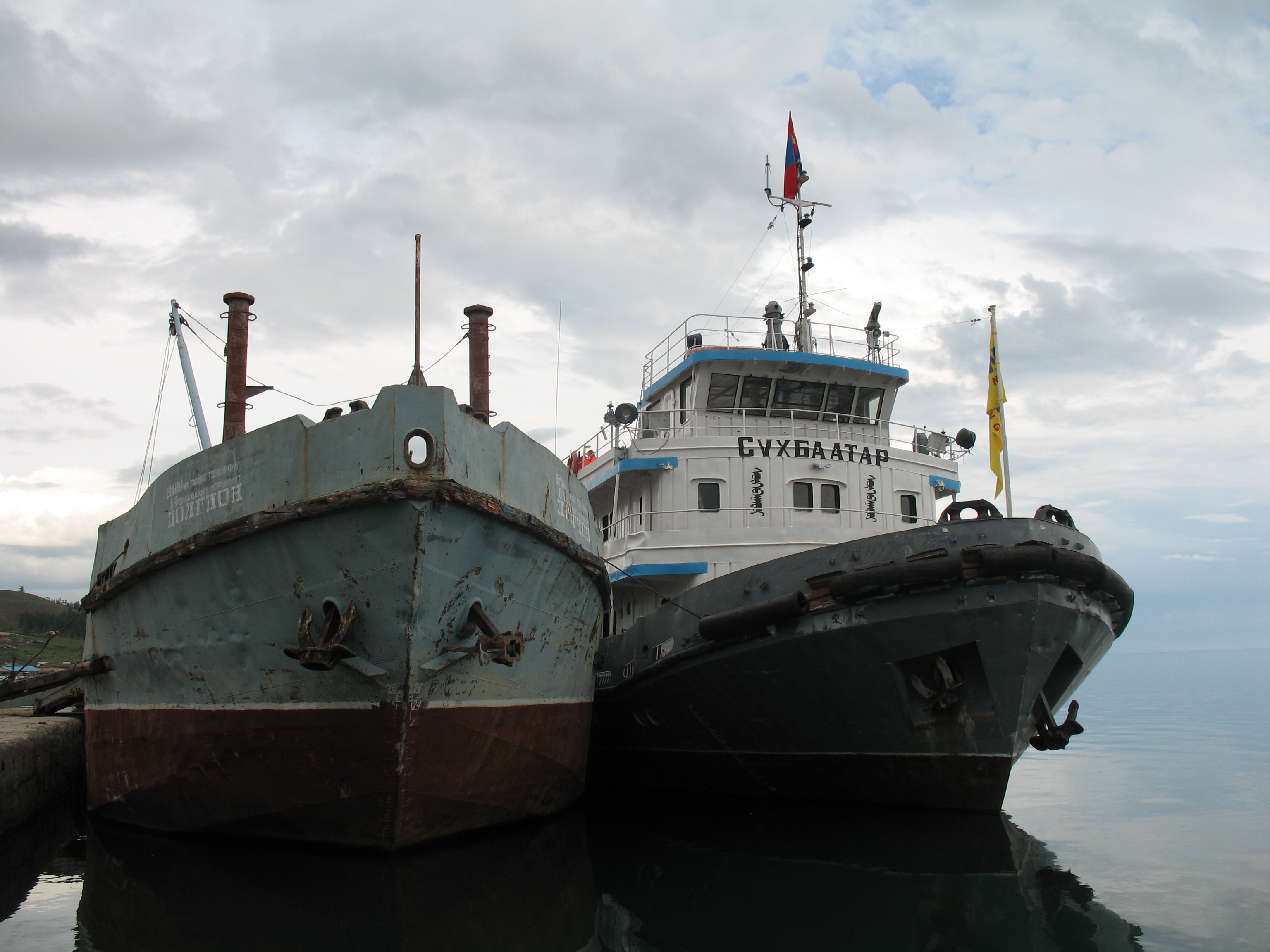 M/S Suhbaatar, port of Khankh, Hubsugul lake, Mongolia